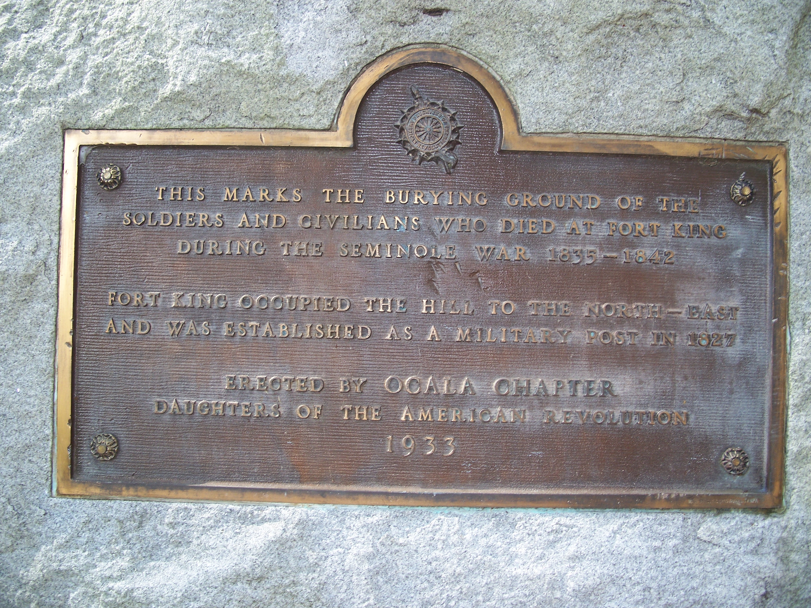 Historical marker at Fort King, a National Historic Landmark in Ocala, Florida